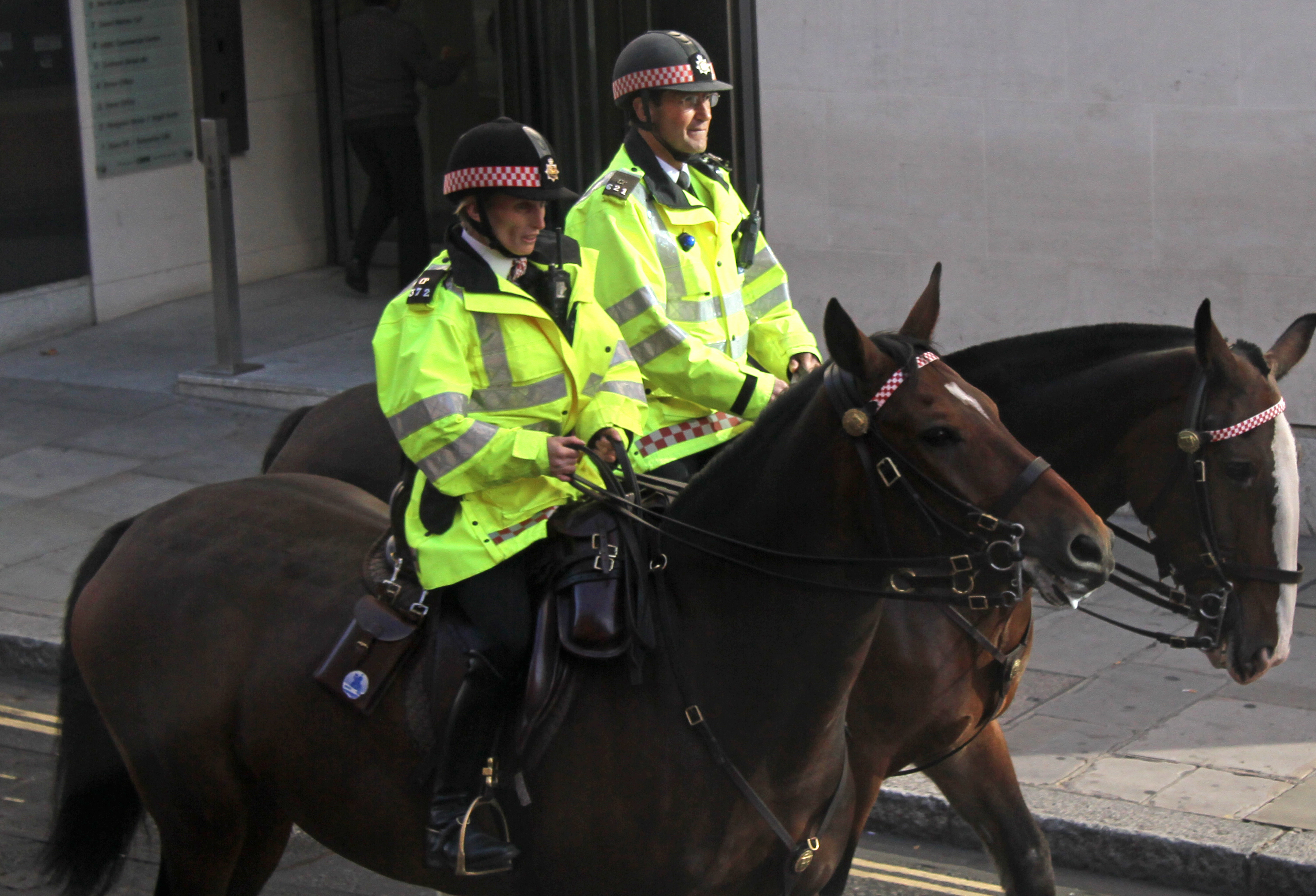 Police Horses